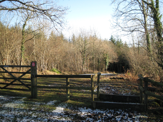 Track into forestry with motorcycle barrier, Great Haldon Stands of coppiced broadleaves, as on the left, occur throughout the mainly coniferous forest. Coppiced species include ash, birch, hazel and sycamore.